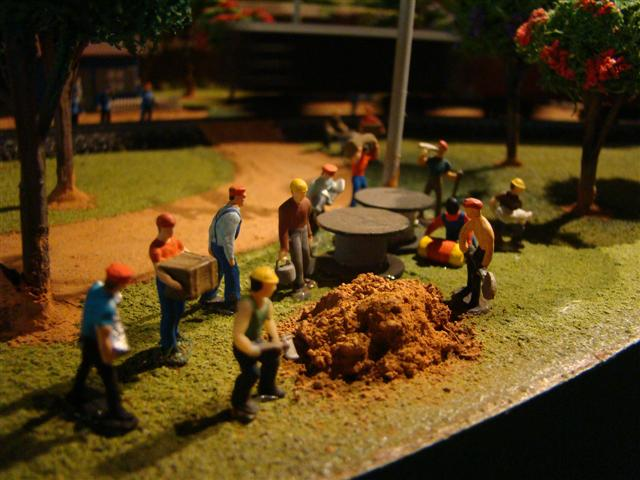 Layout of ASPAFER